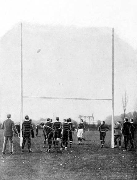 Oxford converting a goal v Blackheath, university rugby union in England.